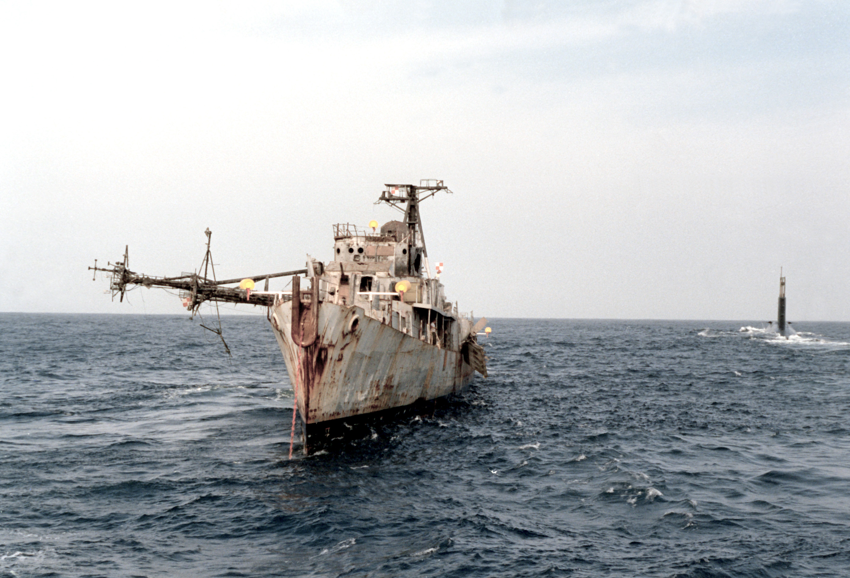 The submarine HMS Courageous (S50) is visible to the right, as the submarine makes assessments of the Harpoon missile damage aboard the former radar picket escort ship USS Hissem (DER-400) during testing on 30 September 1981.